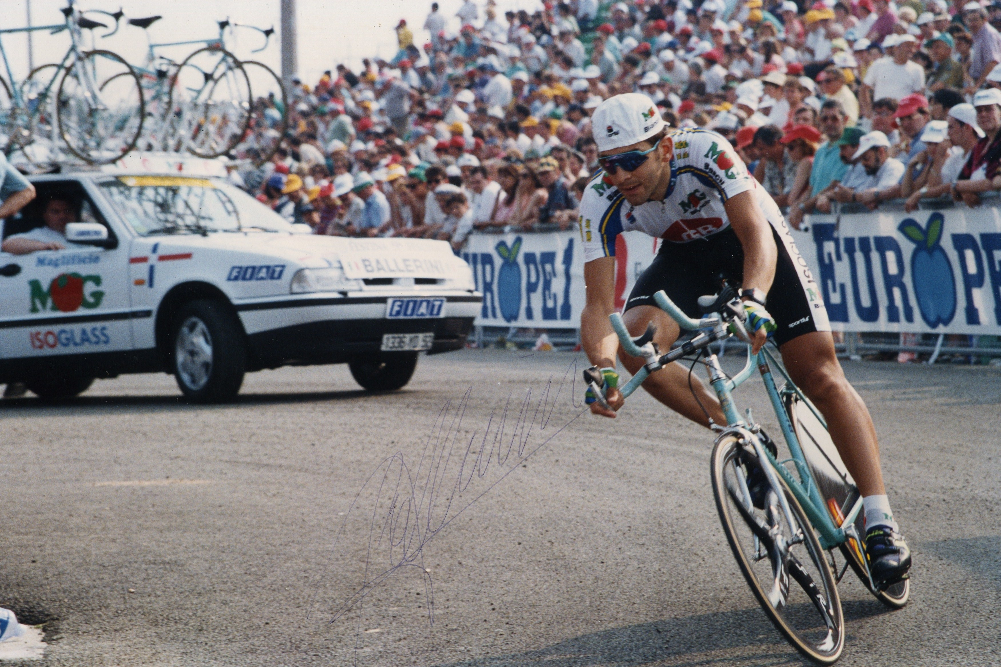 Prologue du Tour de France